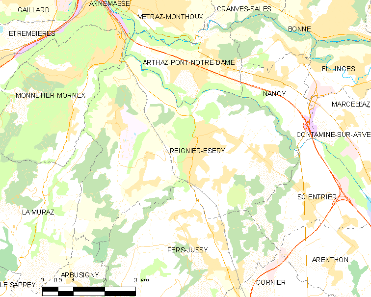 Map of French municipality Reignier-Ésery